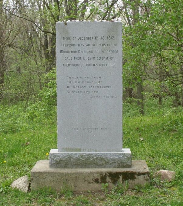 Memorial to the Miami warriors who died defending their homes at the Battle of Mississnewa.